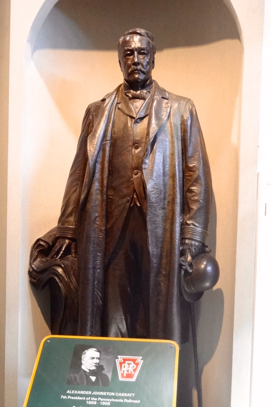 Statue of Pennsylvania Railroad President Alexander Johnston Cassatt, first installed at the opening of Pennsylvania Station. Currently on display at the Railroad Museum of Pennsylvania